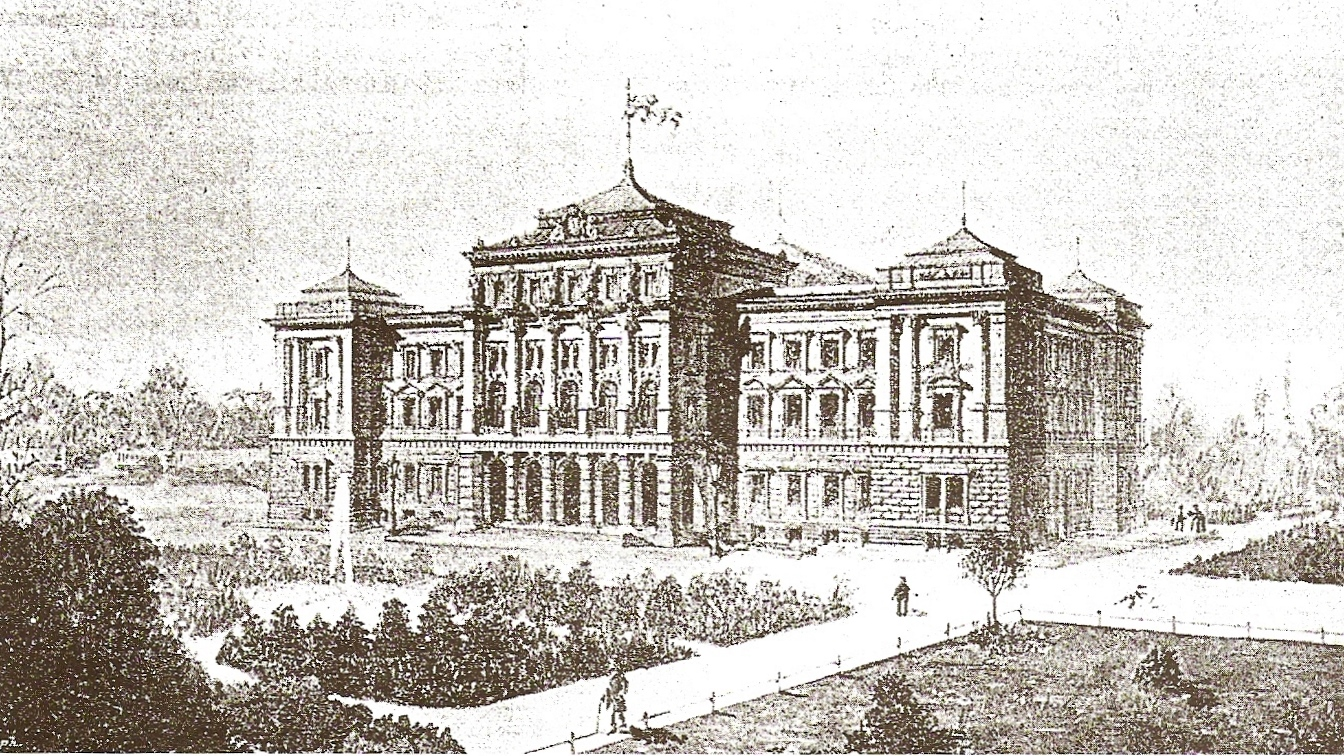 Town Hall in Biala, competition project "Honoris Causa" by Karol Korn